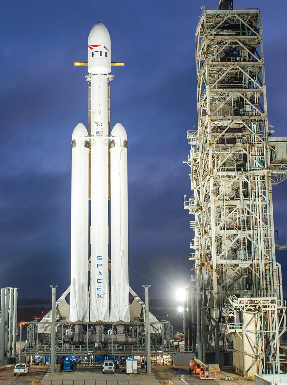 Falcon Heavy getting ready for first mission